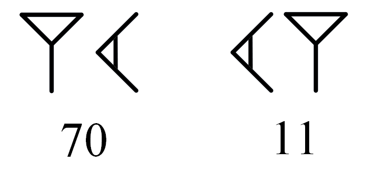 Babylonian cuneiform digits 70 et 11, illustrating the evolution of the curse on Babylon during Sennacherib and Assarhaddon reigns : the former curse was intended to last 70 years during which the city was not supposed to be rebuilt, but by the inversion of the signs the new curse was only of 11 years.